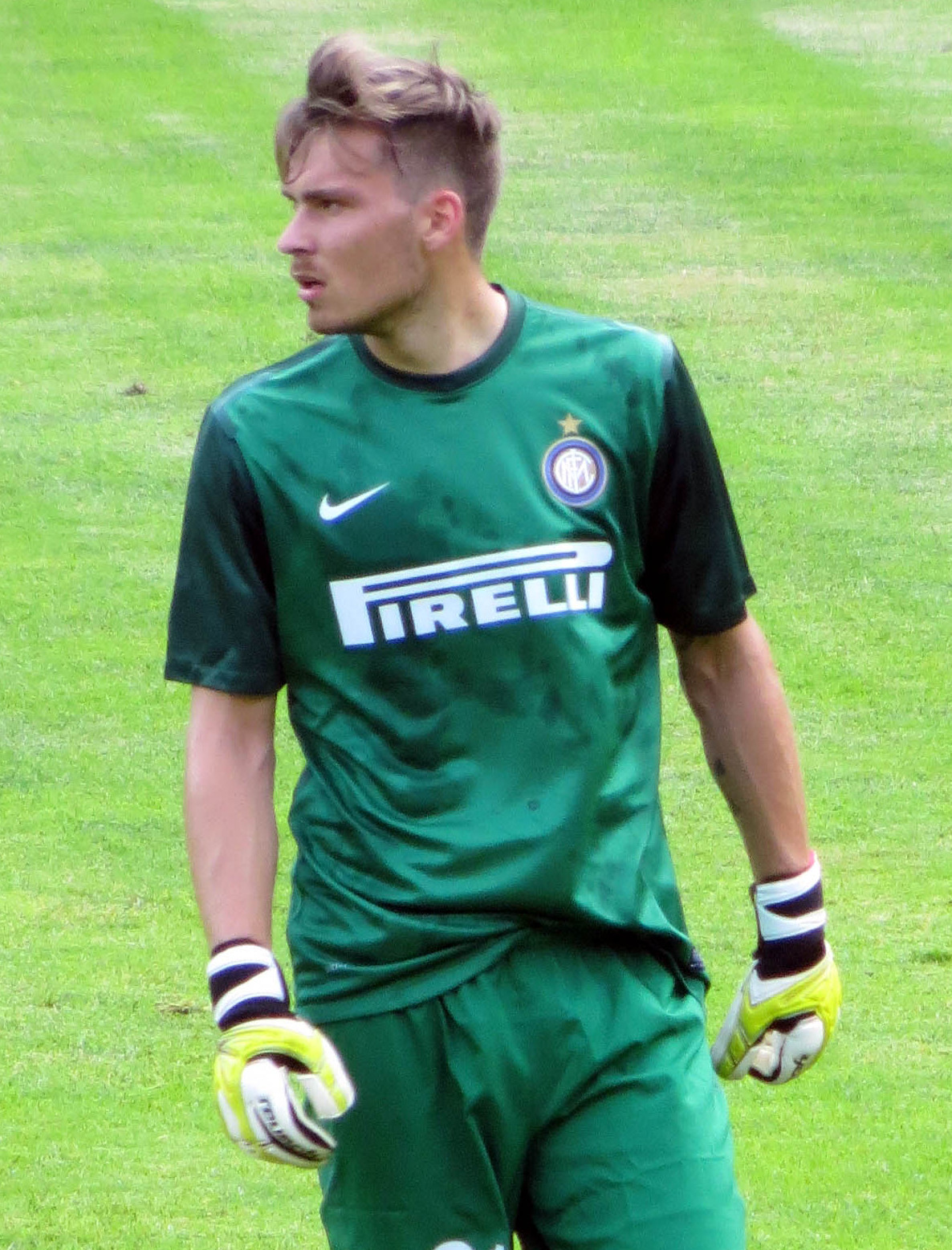 Vid Belec during pre-season with Inter.